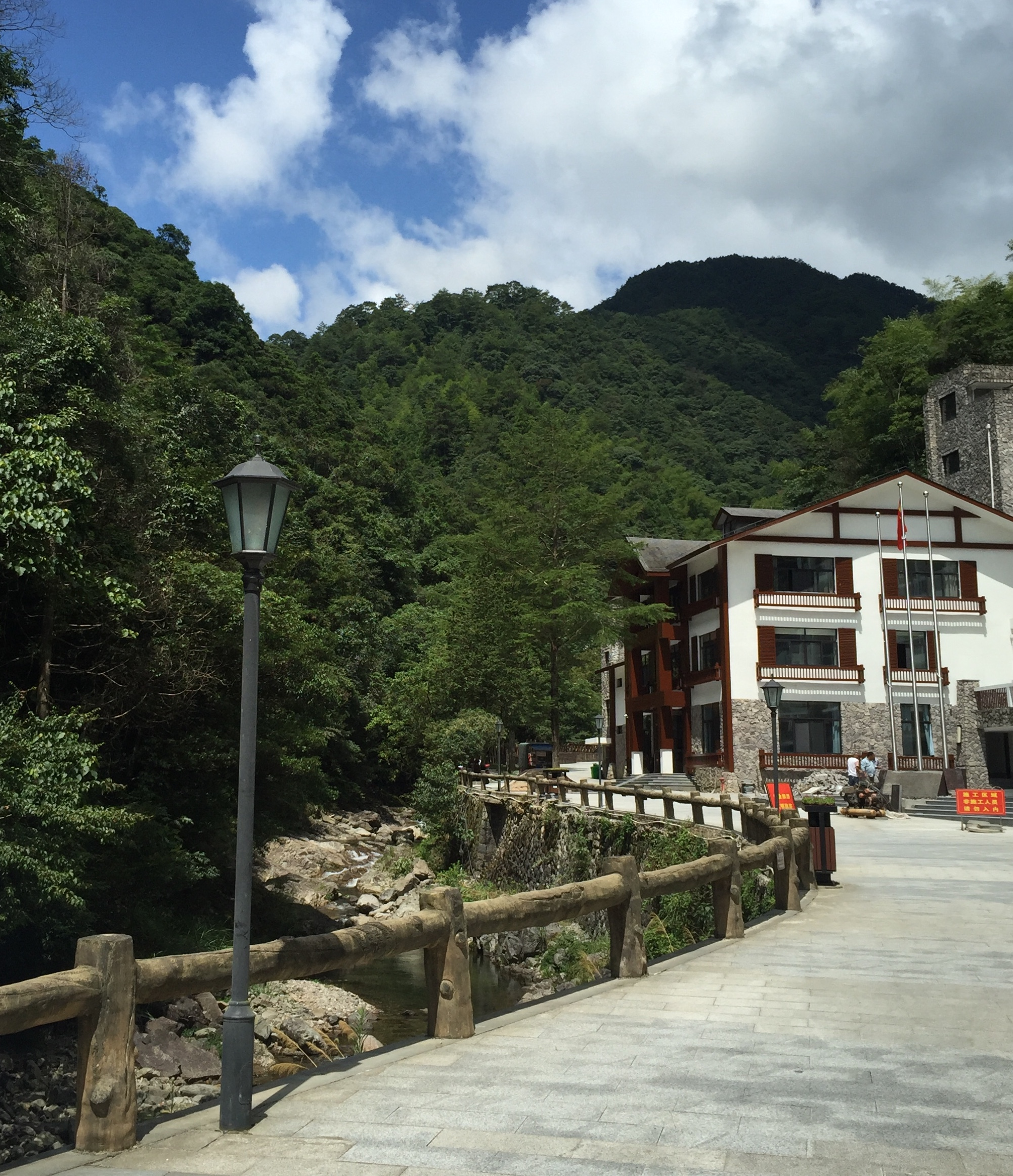 This photo was taken in August 2019